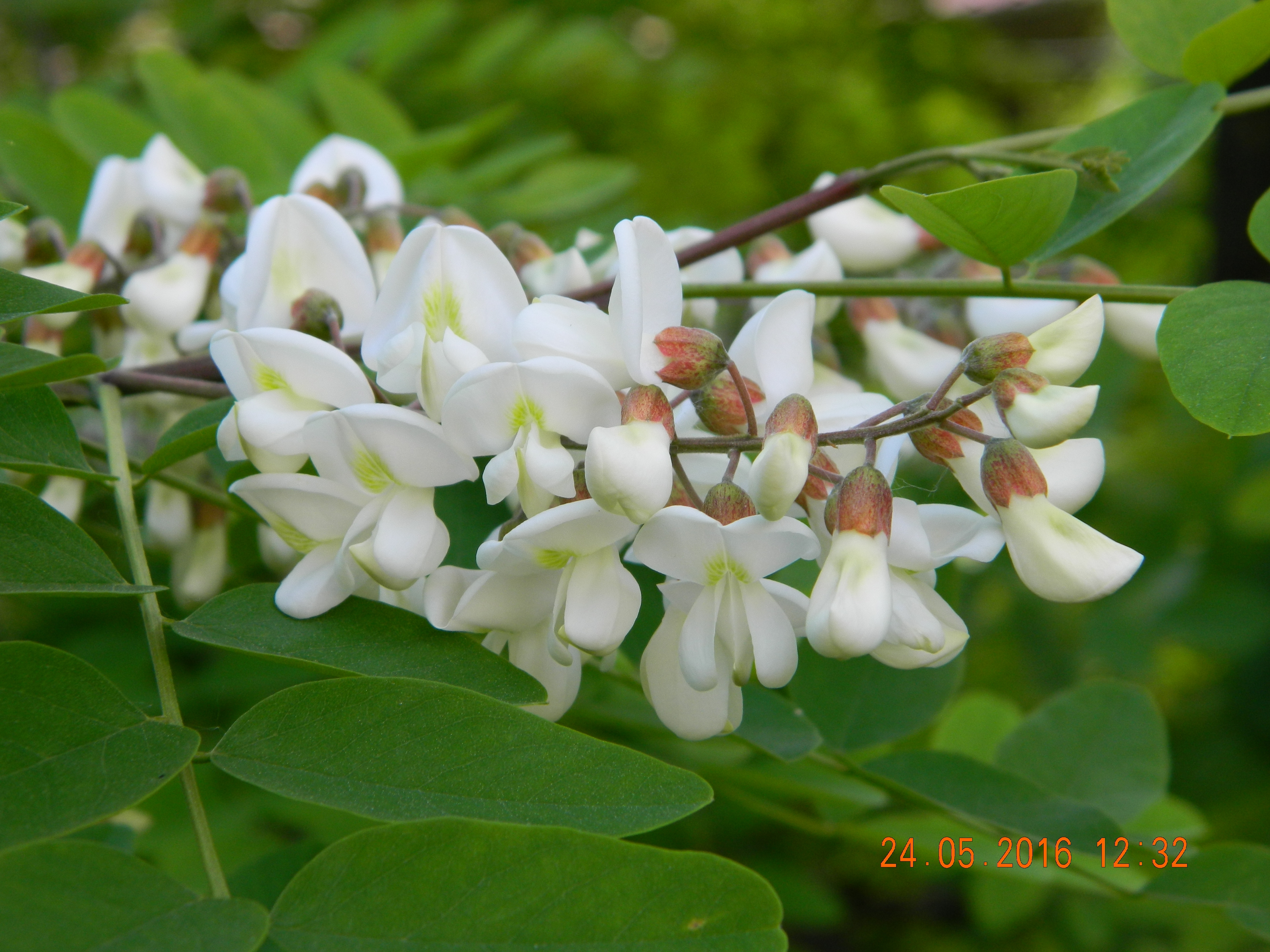 Robinia pseudoacacia. Inflorescence with flowers and buds. Kyiv. Mountain Schekavytsa. 2016.